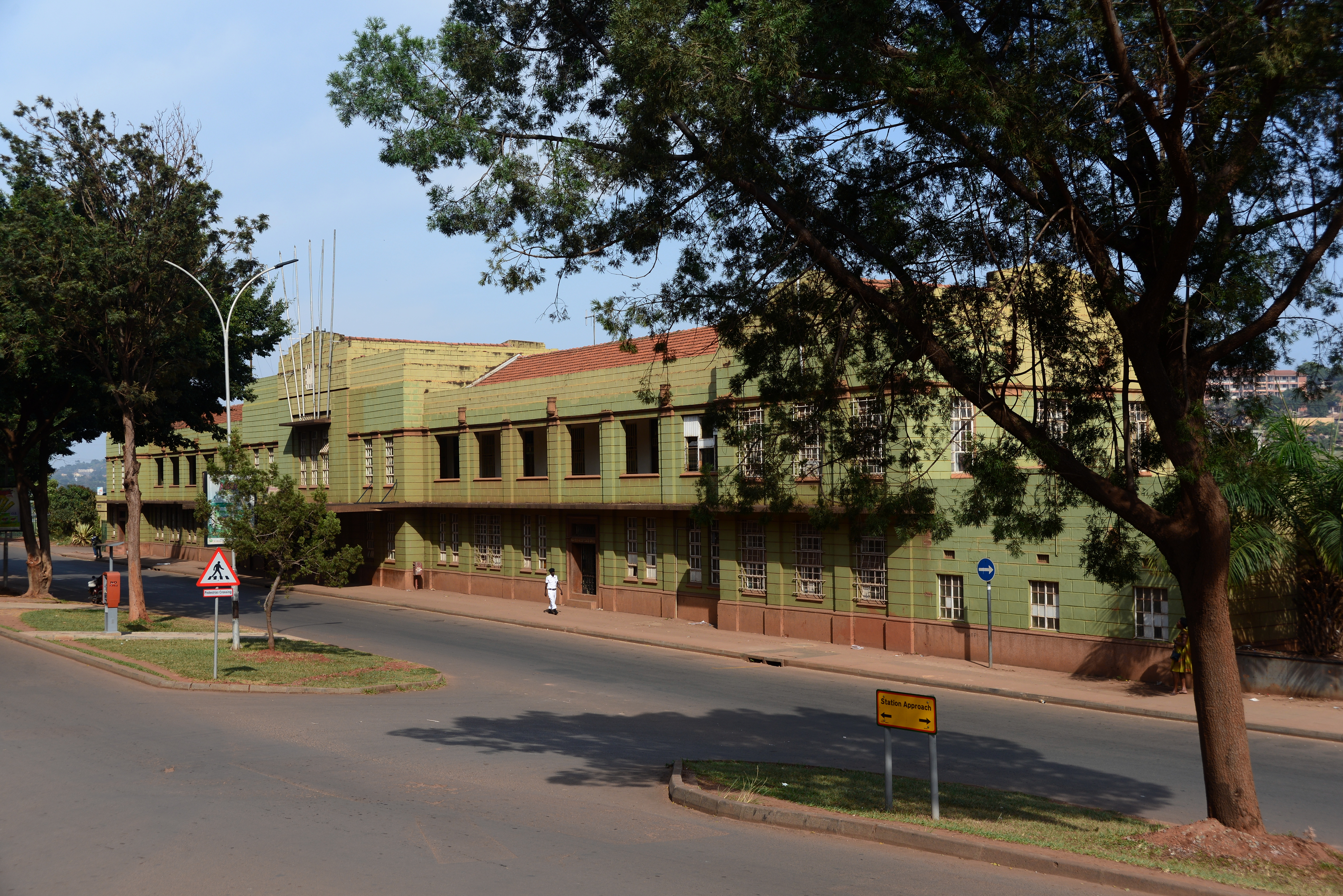 Main building of Kampala train station, Uganda